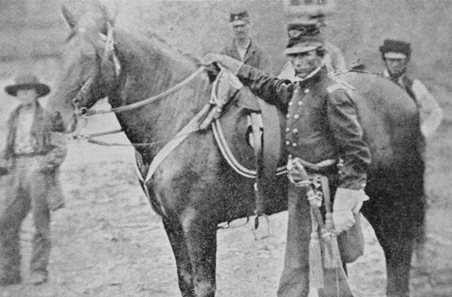 a civil war soldier named William H. Gibson with horse later shot from under him.